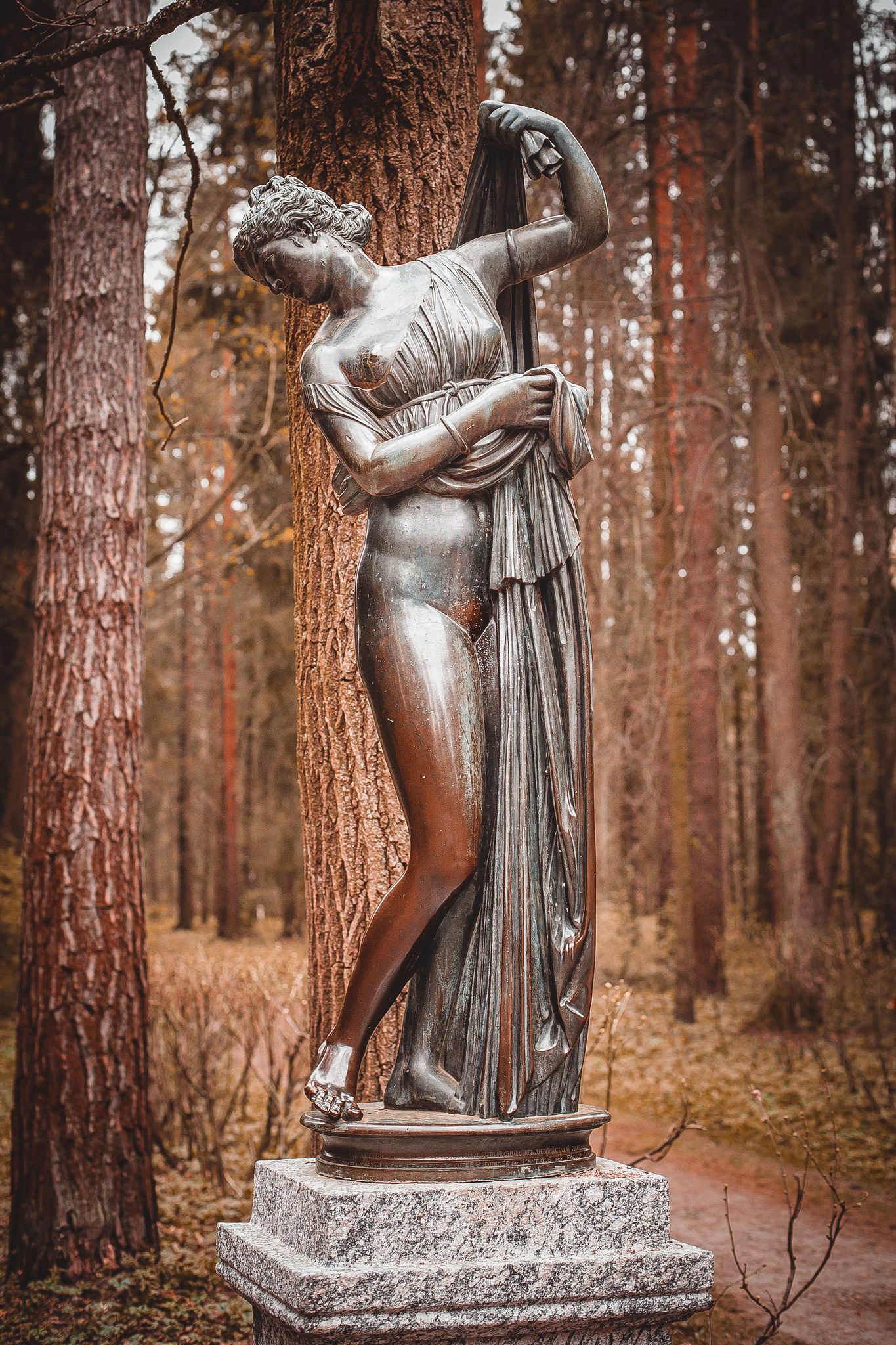 Venus Kallipyge The Pavlovsk Park Twelve Paths at Old Silvia